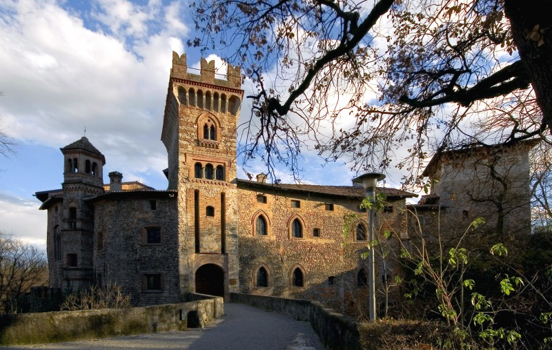 The castle of Marne, Bergamo